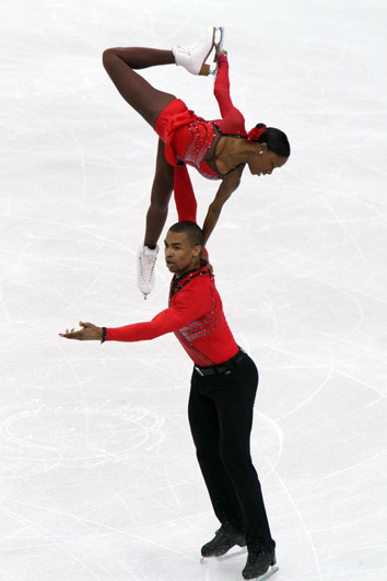 Vanessa James and Yannick Bonheur at the 2010 Winter Olympics.